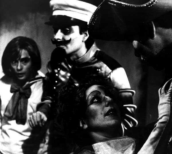 Production still from Brad May's stage production of "The Water Hen" Tobias Haller, Stanley Keyes, Linda Chambers, James Curran, 1983.